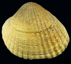 Cerastoderma edule; marine bivalved shell commonly occurring in the North Sea.